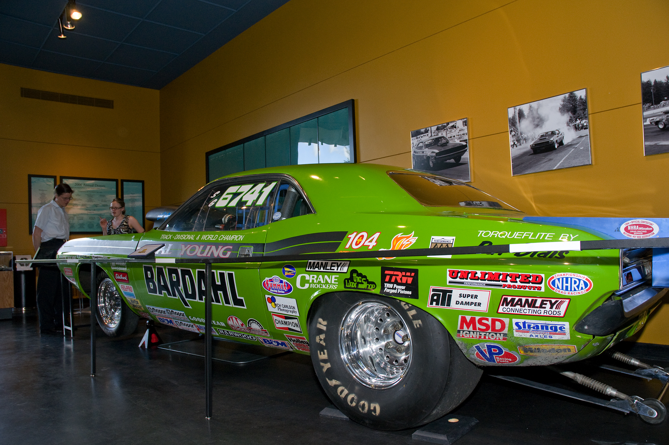 Rear 3/4 photo of Al Young's Championship Challenger